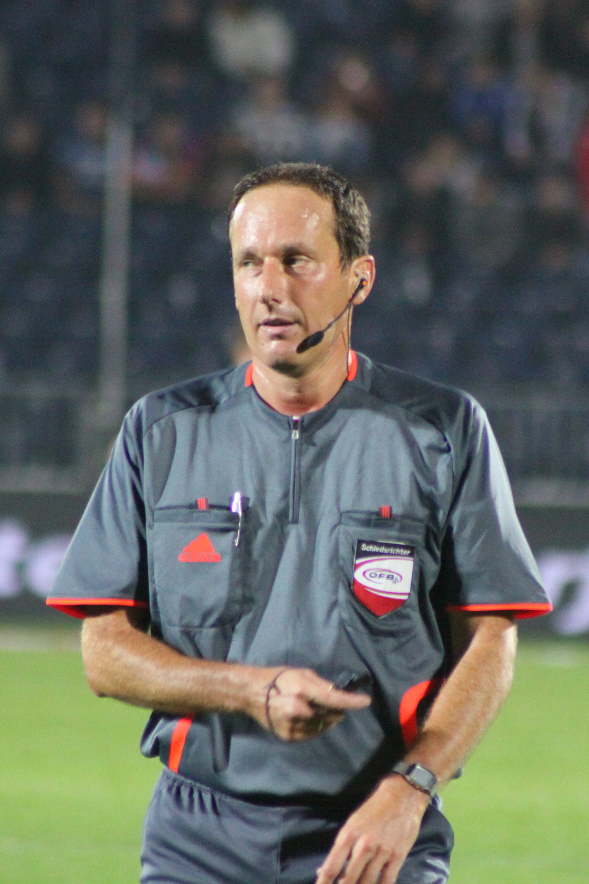 Dietmar Drabek - football-referee of Austria